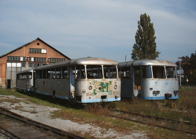 Old HŽ 7221 series railbuses in Karlovac, Croatia